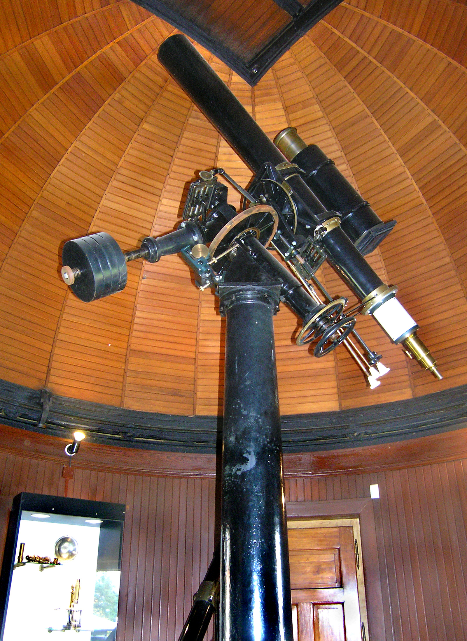 Original telescope in historical dome at the Czech Astronomical Institute in Ondřejov, installed on an equatorial mount